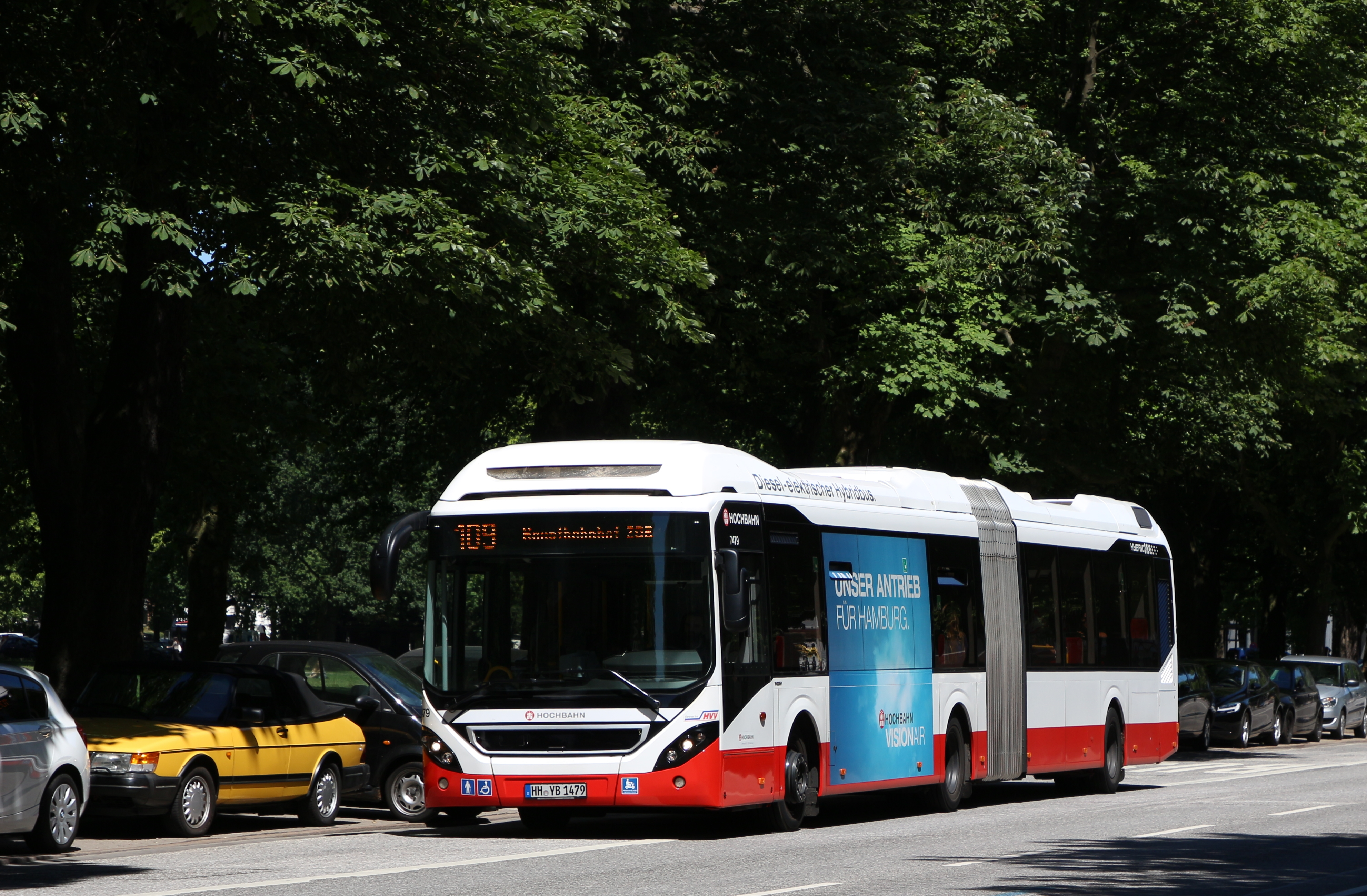 Hochbahn 7479, an articulated Volvo 7900, usually used on line 109